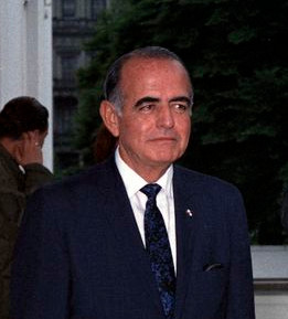 President John F. Kennedy visits with President of Panama, Roberto F. Chiari (left), in the North Portico of the White House, Washington, D.C.; President Chiari visited the White House to attend a luncheon in his honor. Members of the press gather in the background.